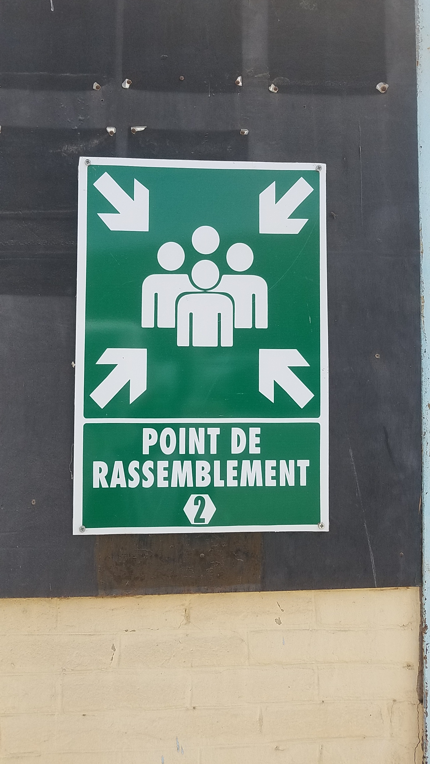 Senbus industrie, The first industrial Bus Assembly unit in West Africa was officially inaugurated by the President of the Abdoulaye Wade Republic Inaugurated in September 2003. The fruit of a Senegalese Indo partnership will generate some 250 jobs, its objective is to produce 600 Vehicles per year for National and Sub-regional needs. This is an image with the theme "Africa on the Move or Transport" from: Senegal